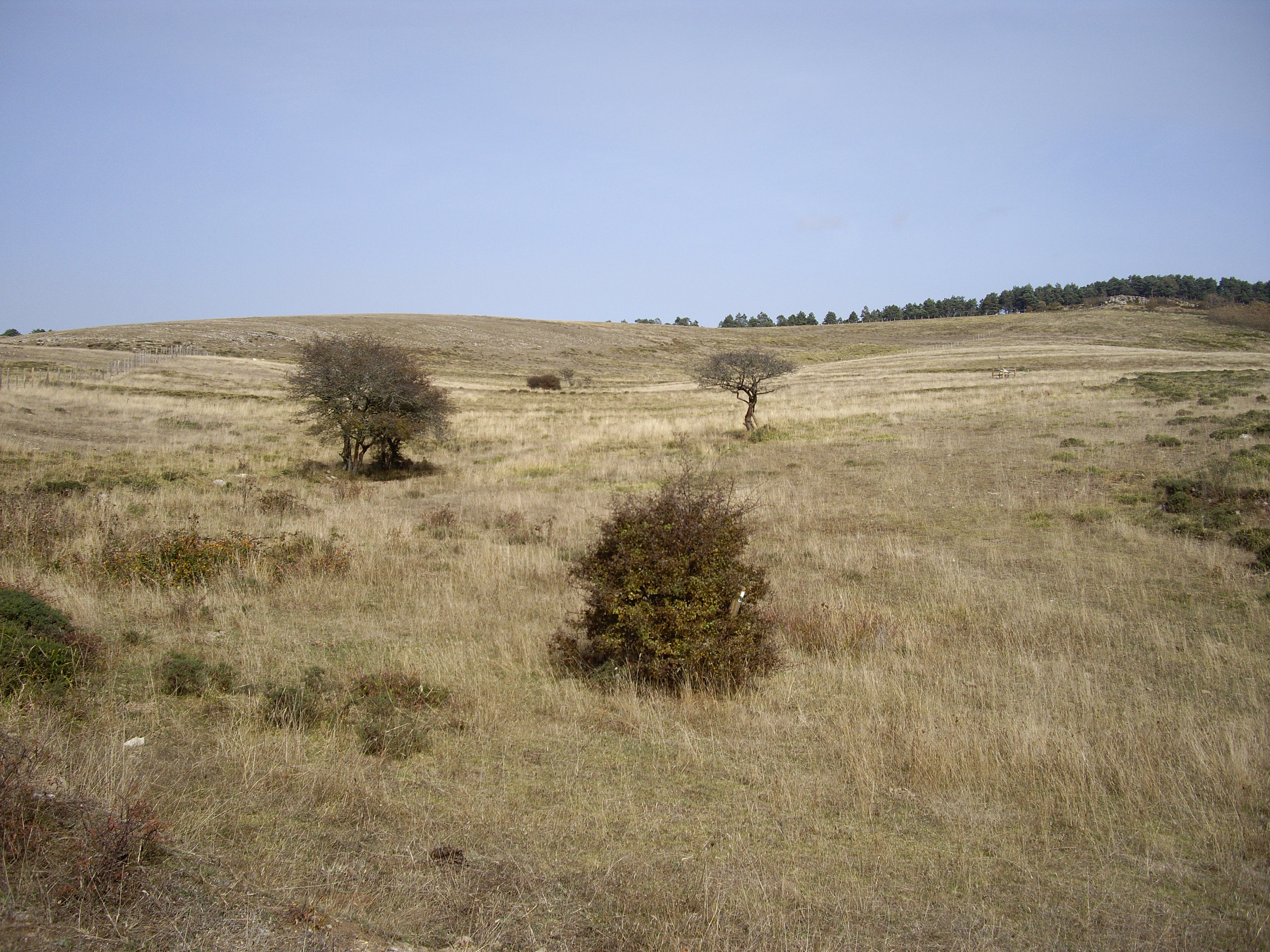 Landscape to the North of Celada Marlantes (Campoo de Enmedio, Cantabria) in Spain, La Mayuela area.